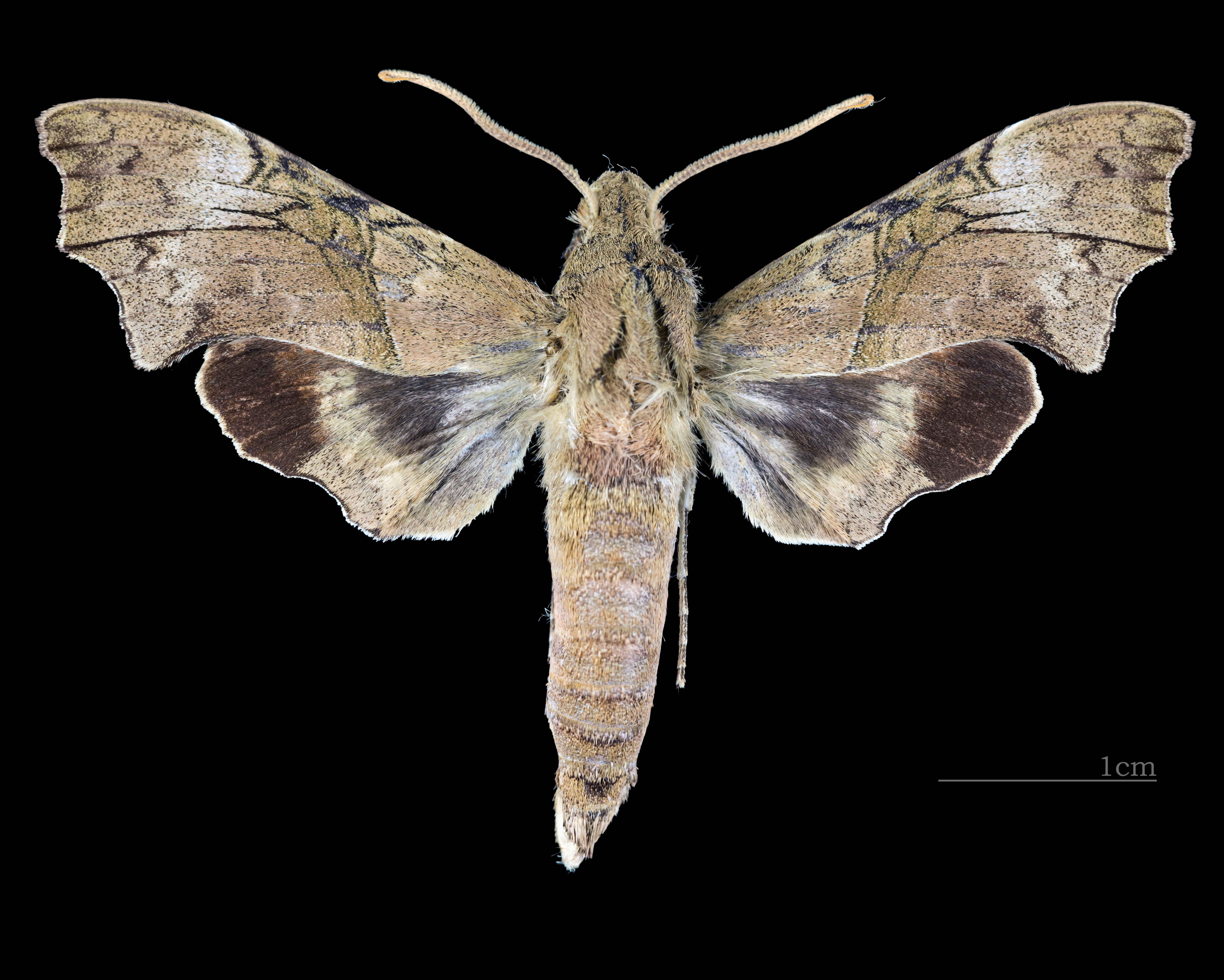 Aleuron neglectum - Dorsal side Dorsal side Face dorsal Collection of the Mathematician Laurent Schwartz